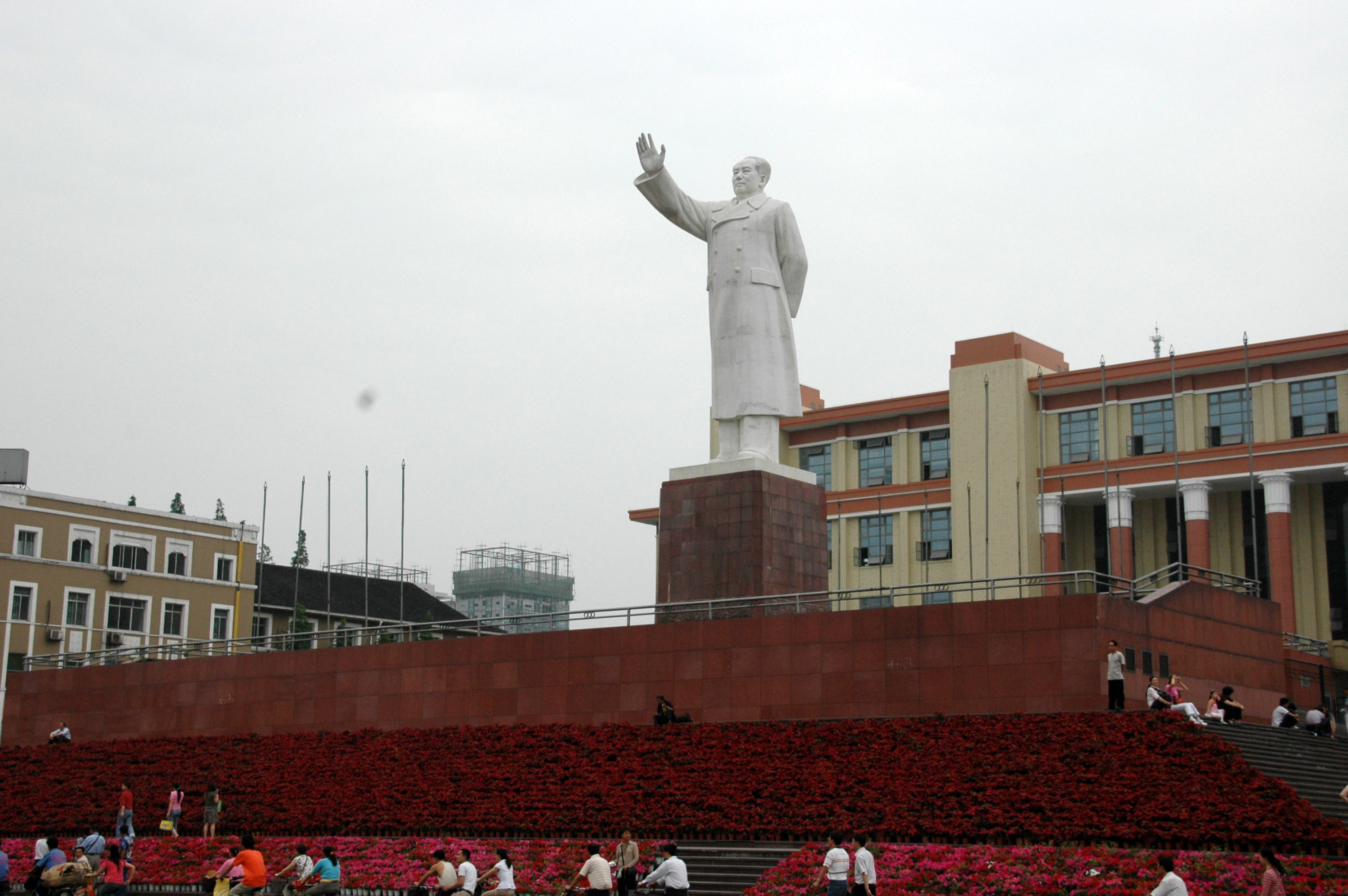 Statue of Mao, Chengdu, China, one of the few remaining.